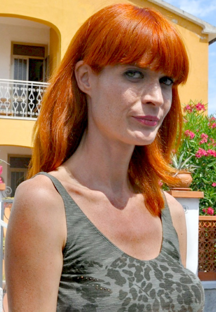 British actress Jane Alexander during the filming of the second season of TV series Il commissario Manara (she playes Dr. Ginevra Rosmini).